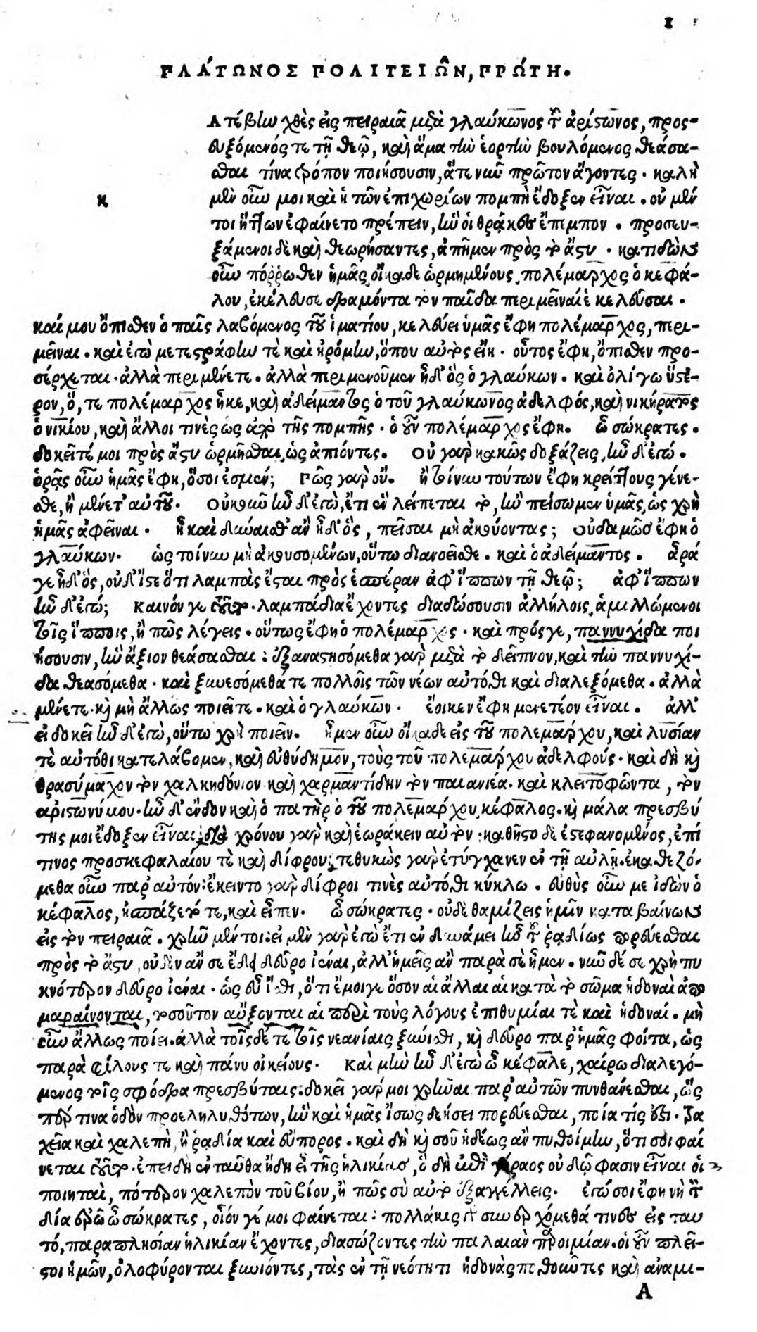 Politeia I beginning. Editio princeps, Venice 1513.